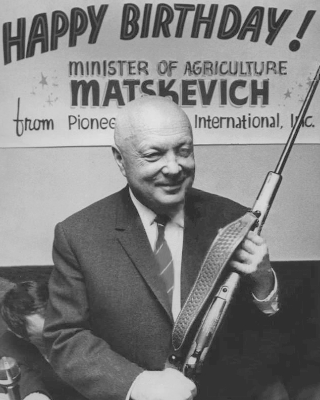 1971 Press Photo Soviet's Matskevich holds Weatherly Mark IV birthday gift